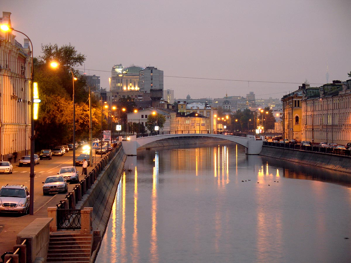 Zverev Bridge at dusk, Moscow, Russia, 2006. Old midrise buildings on each side of the canal were destroyed in 2008-2009 (see annotation overlaid over image).